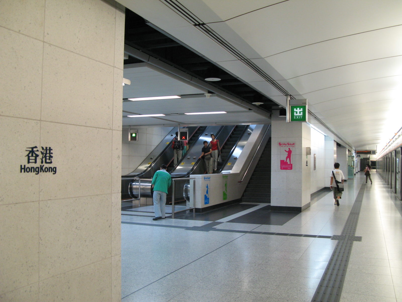 HK MTR Hong Kong Station platform